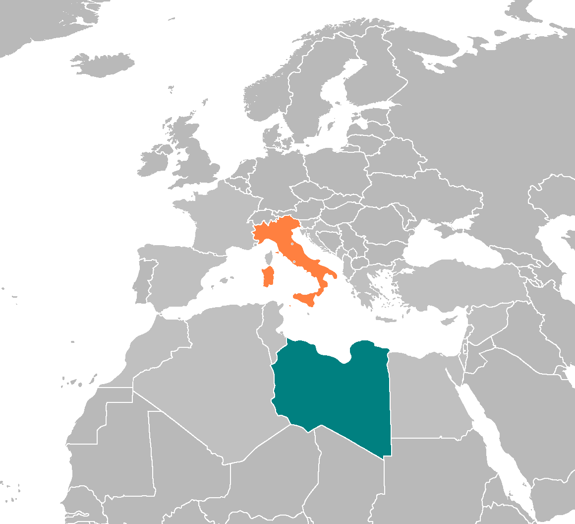 locator map for Italy & Libya.